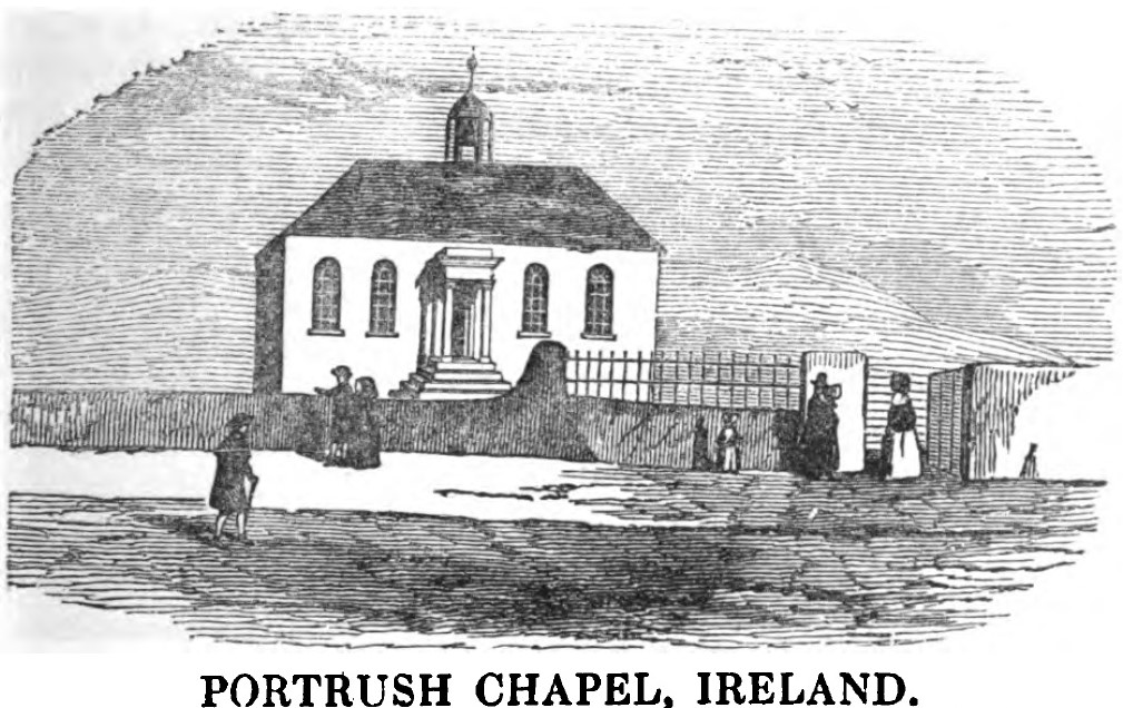 Portrush Chapel, Ireland (VII, p.31, March 1850)